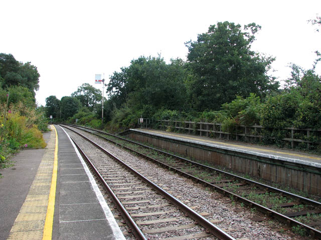 Somerleyton railway station - this way to Lowestoft View south-east from the down (Lowestoft-bound) platform.